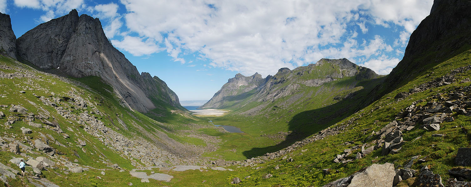 Horseid in Lofoten, Norway. Original description: Horseid beaches